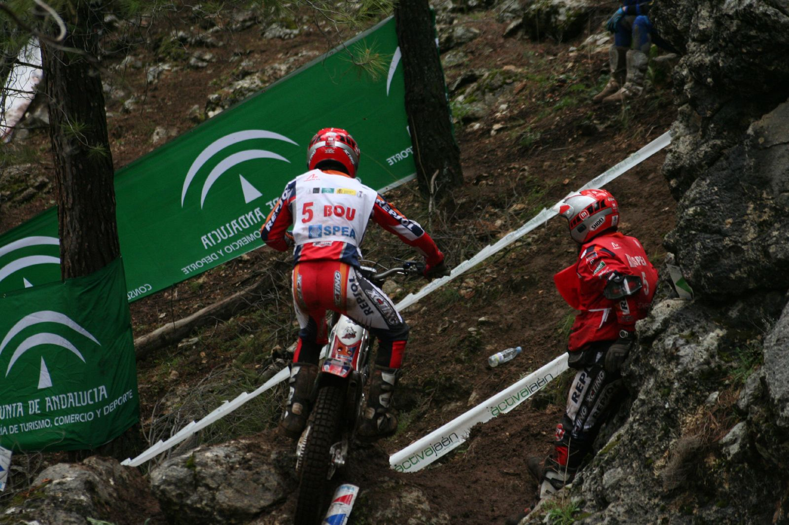 Toni Bou @ FIM Trial World Championship 2007 R1(Spain)